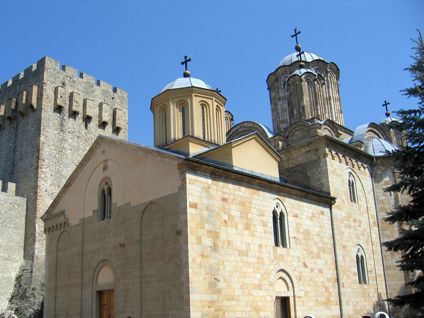 Manasija (Resava) Monastery, Serbia, XV century